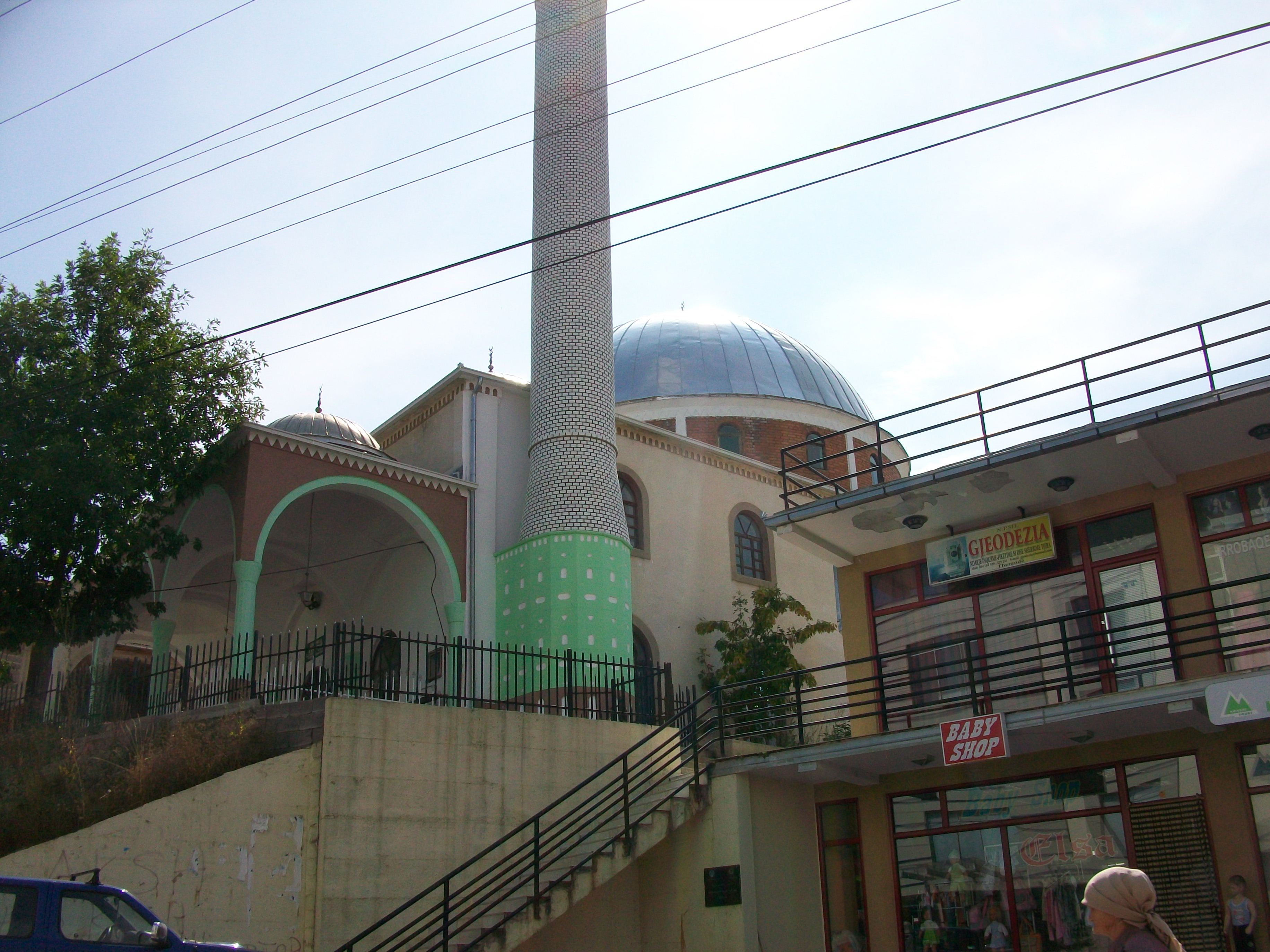 Pictures from Prizren Kosovo